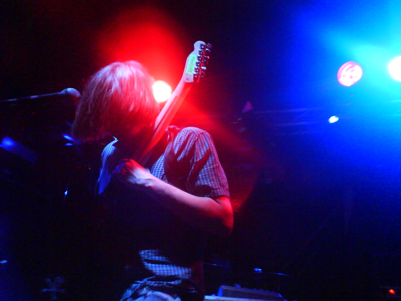 Rock band 65daysofstatic live in Cork, Ireland on 4 November 2007.